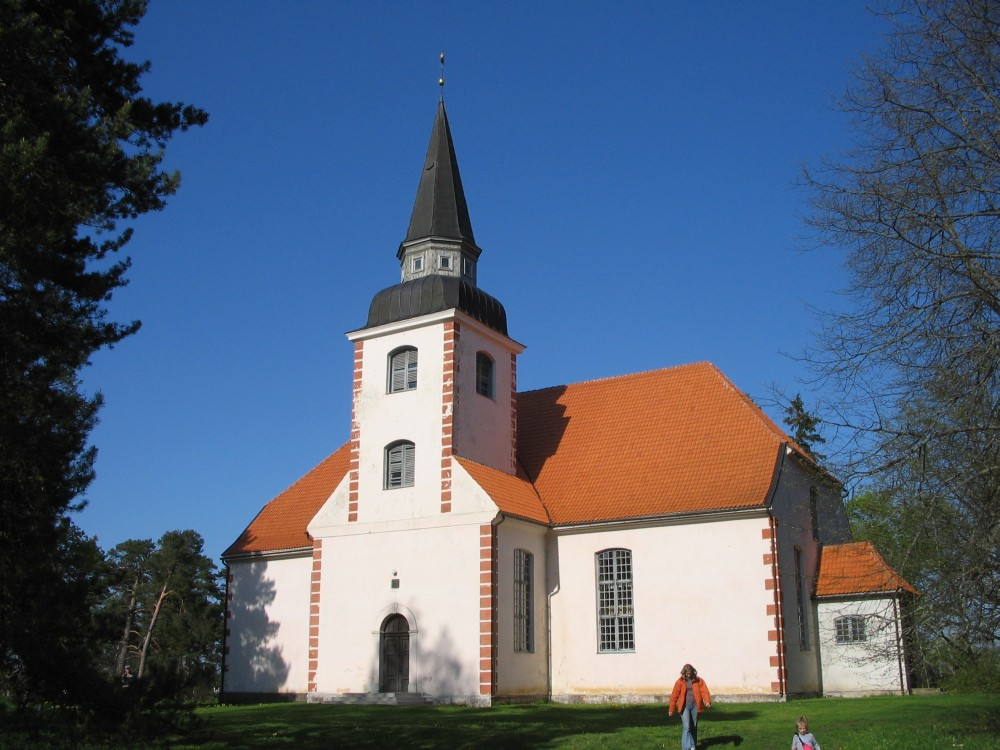 Liepupe Evangelical Lutheran Church near Jelgavkrasti